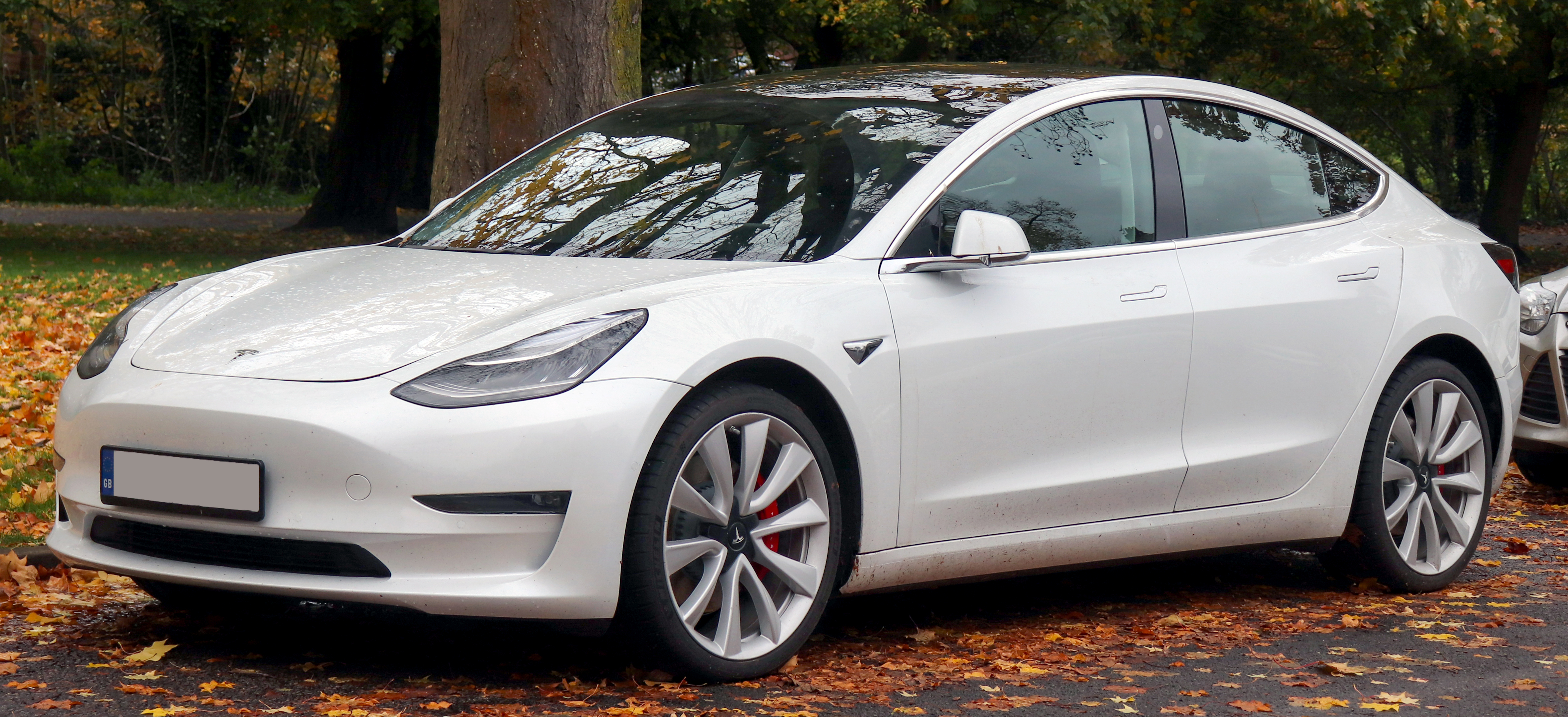 2019 Tesla Model 3 Performance AWD Front Taken in Leamington Spa